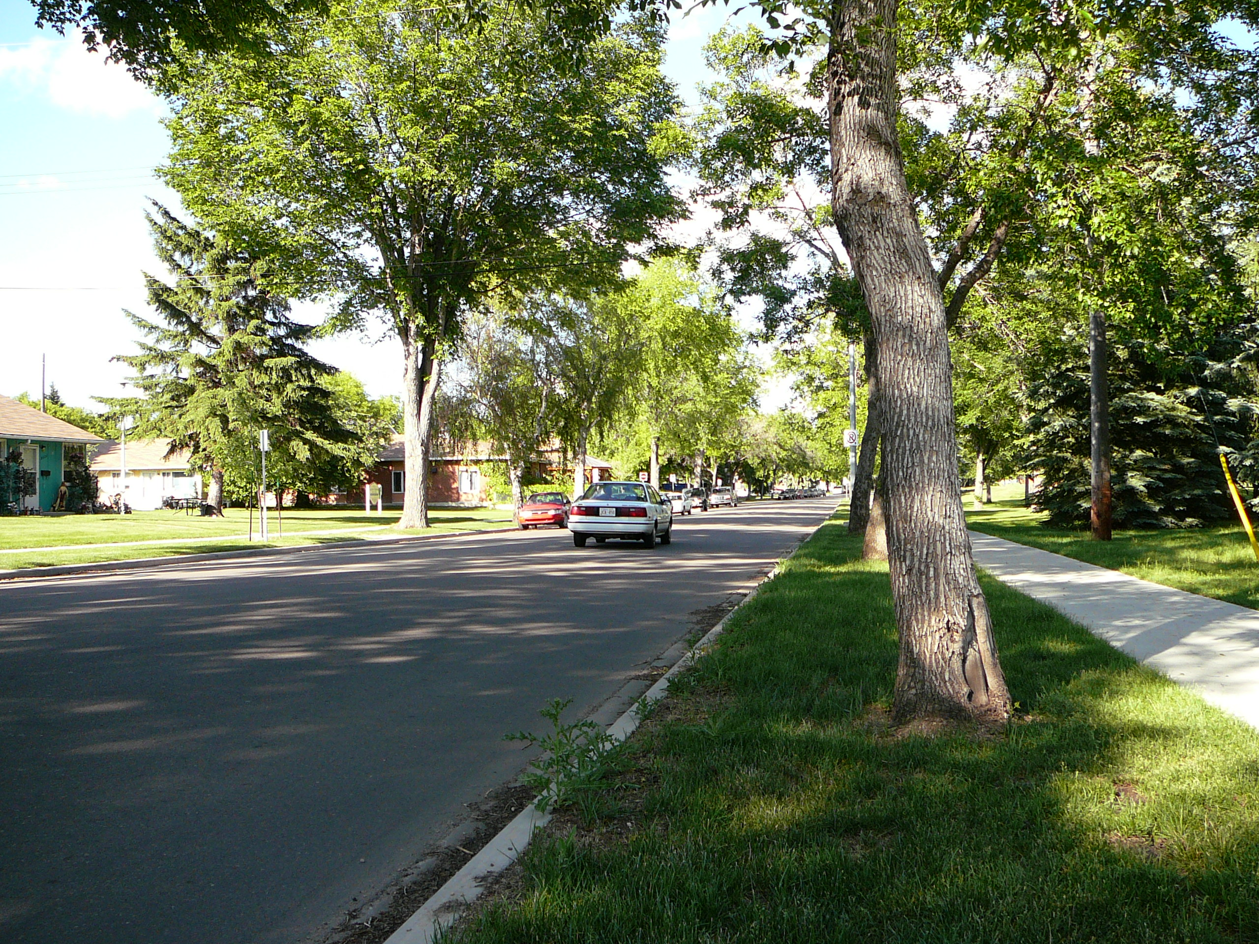 Picture of residential street in the neighbourhood of Holyrood in Edmonton, AB, Canada.